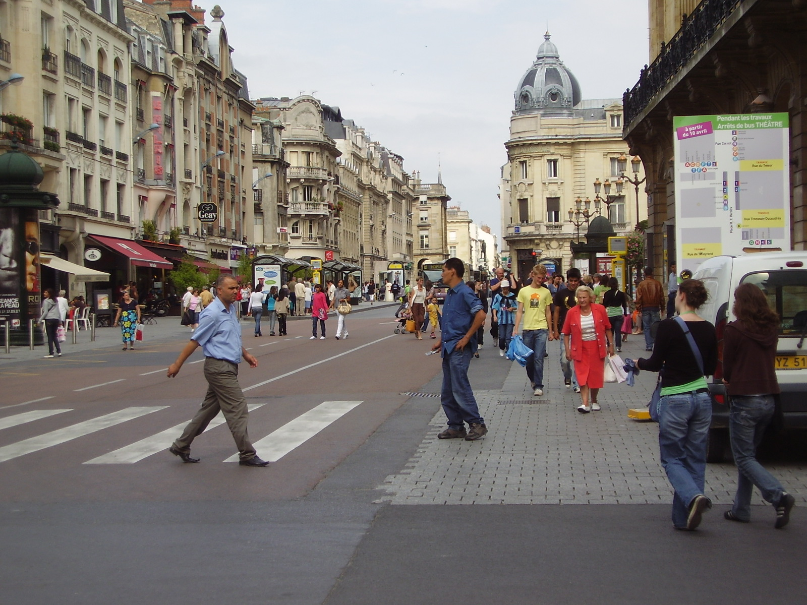 Place Myron Herrick dite/known as "du Théâtre" à/in Reims